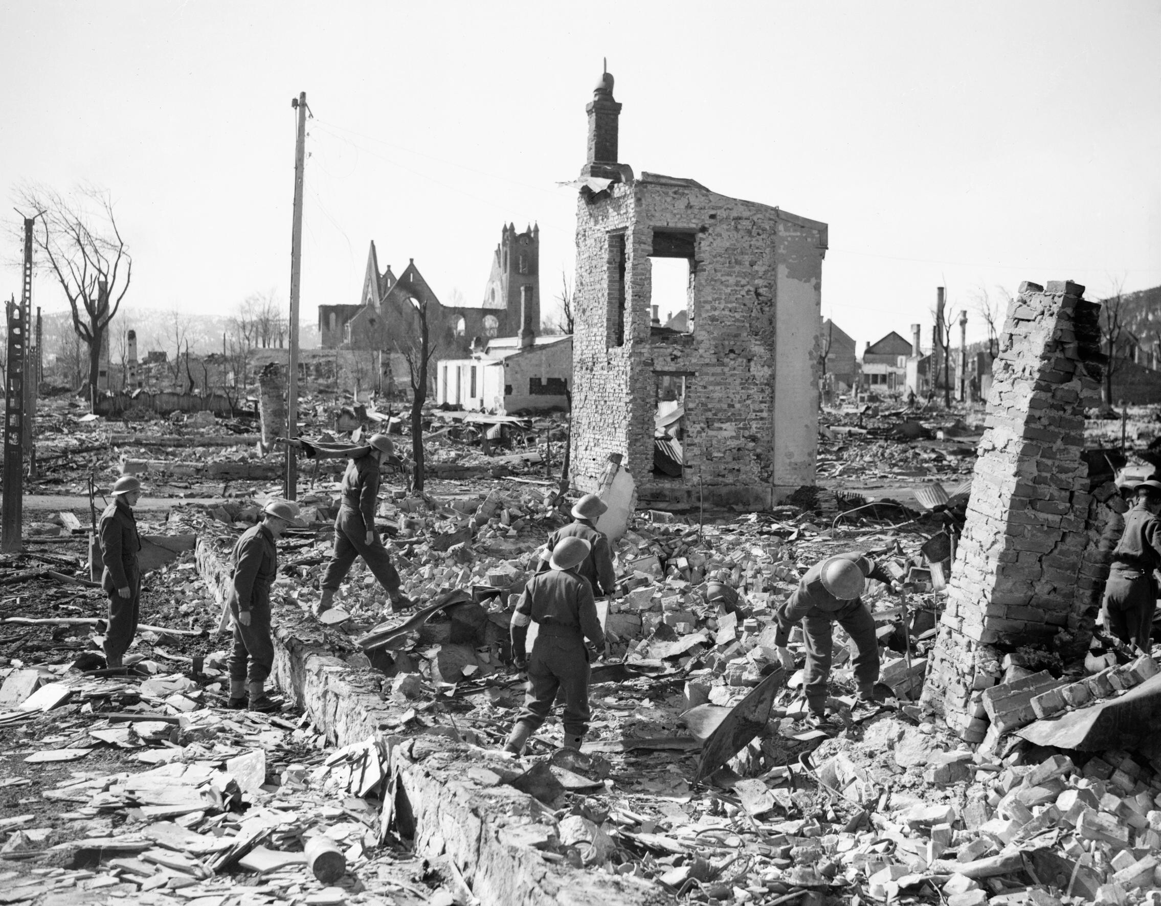 Troops pick through the ruins of Namsos in Norway after a German air raid, April 1940. Troops pick through the ruins of Namsos after a German air raid, April 1940.